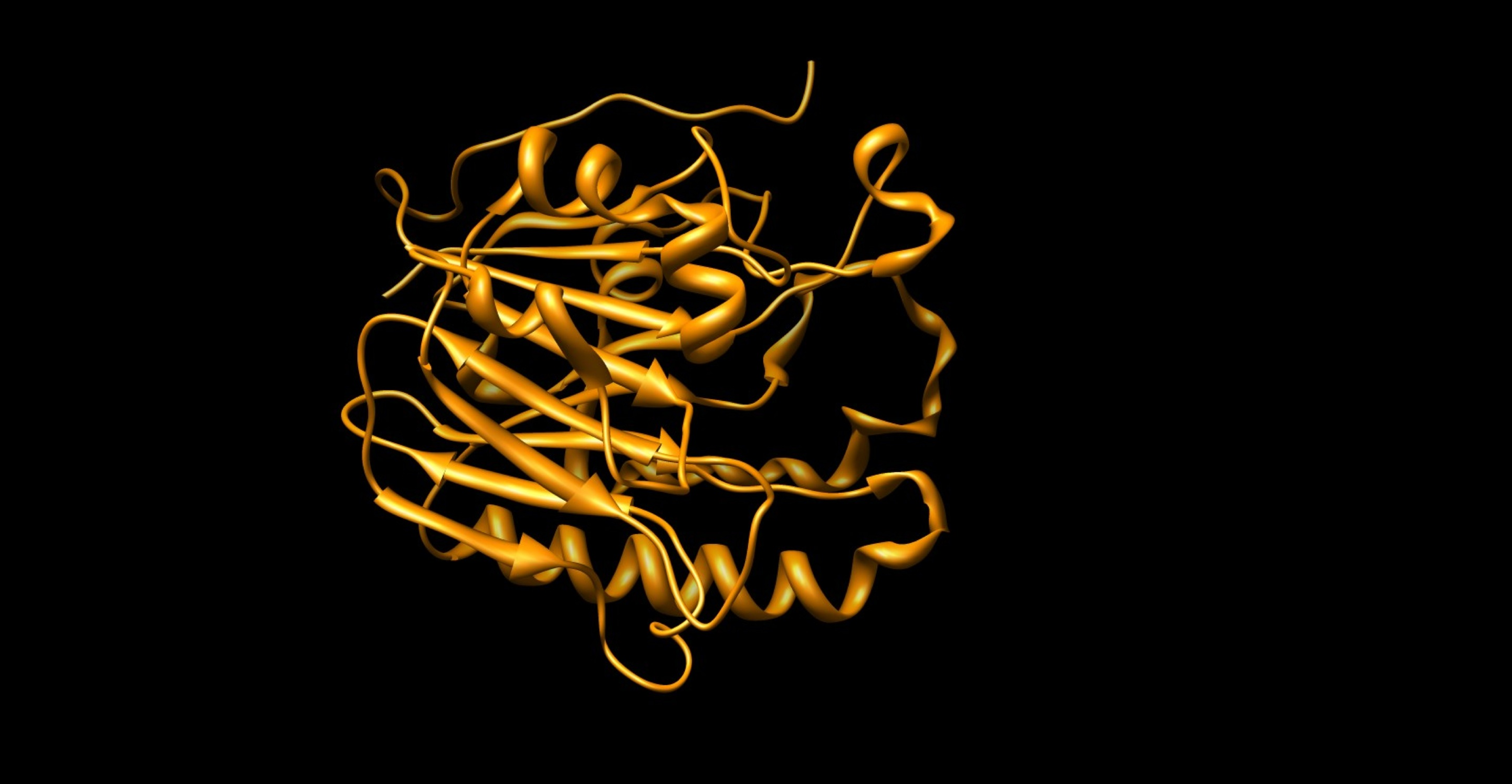 Ribbon diagram of APE1. From PDB 1de9